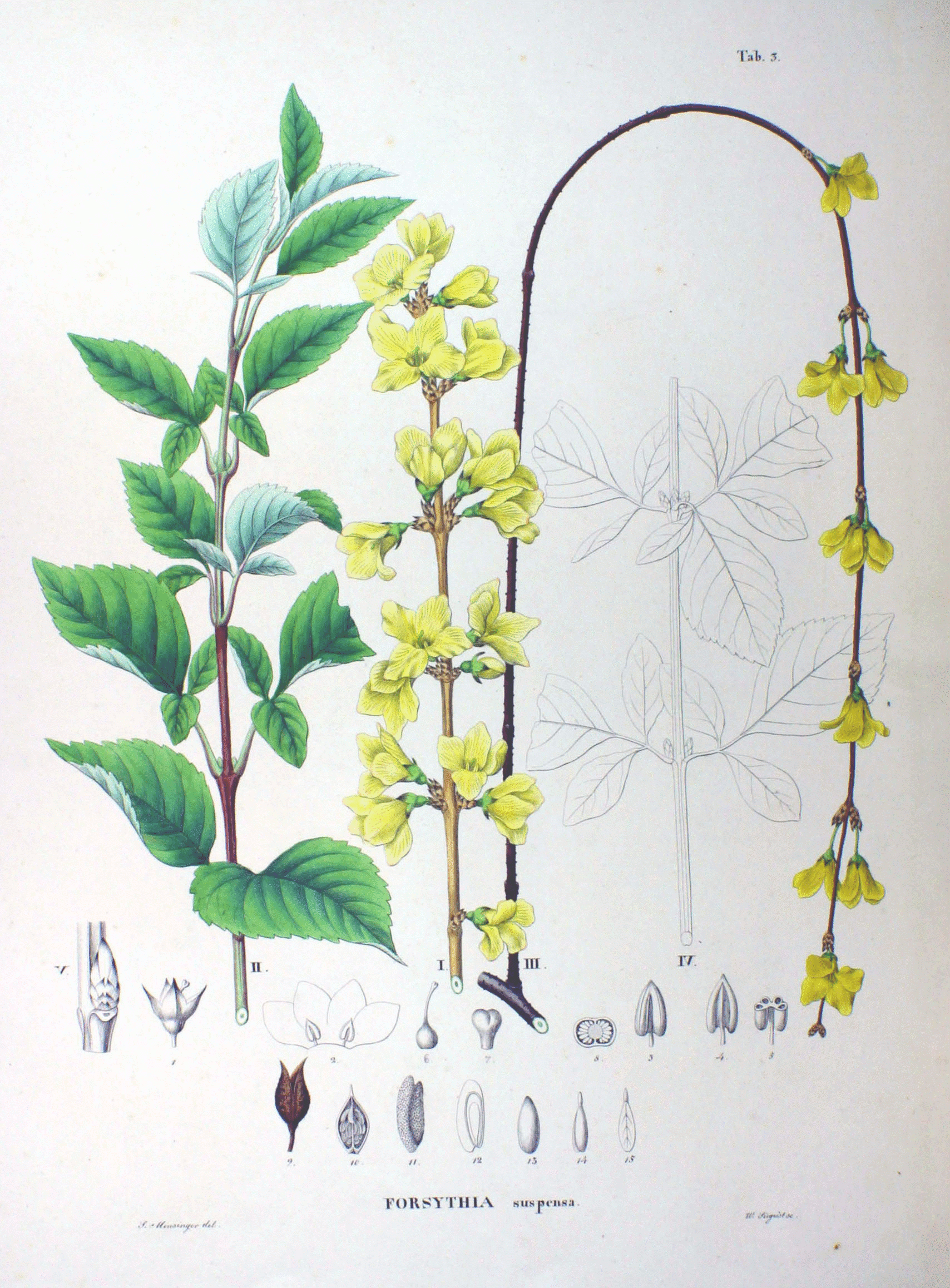 Plate from book